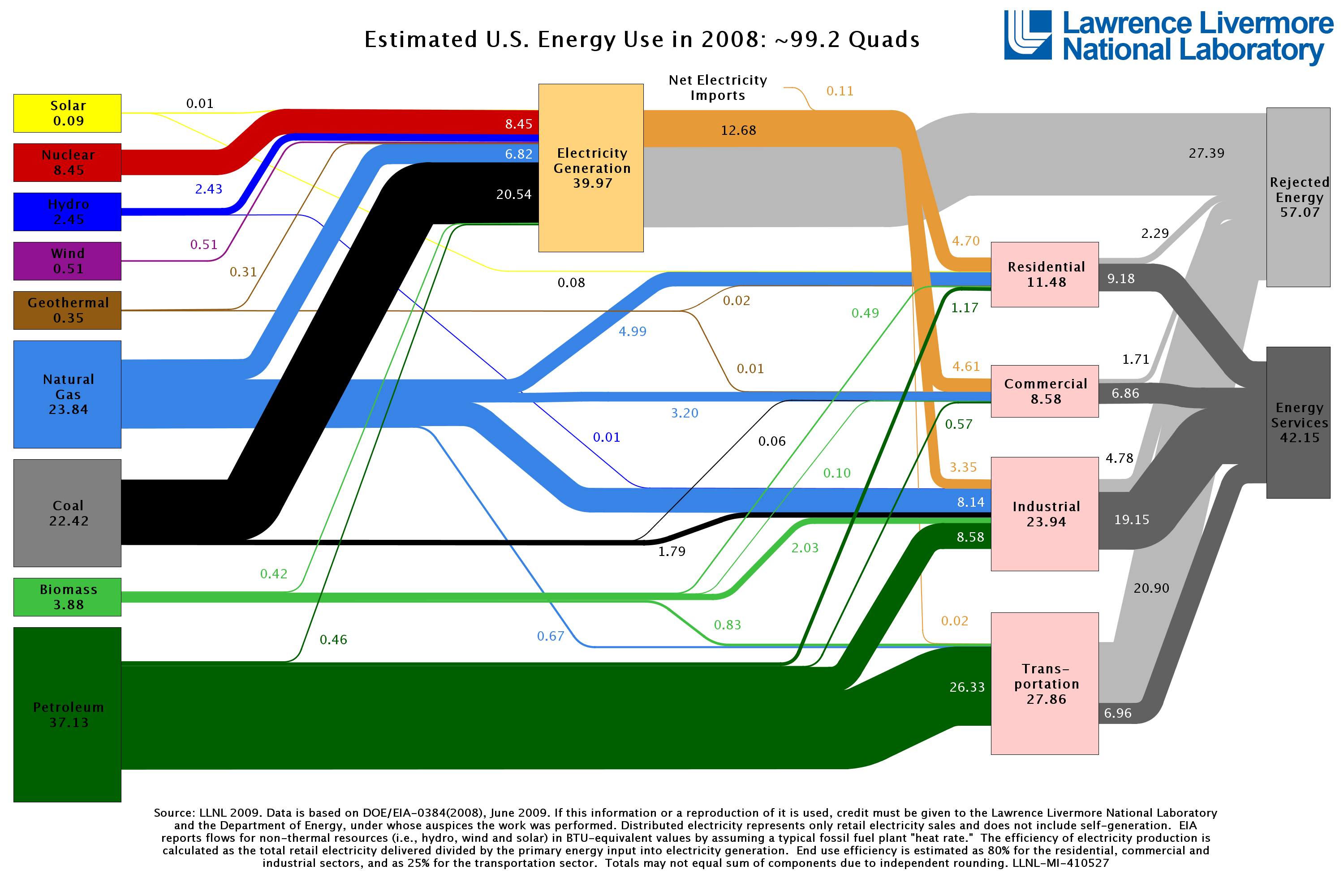 U.S. Energy Flow Chart of 2008 Estimated U.S. Energy Use in 2008 is ~99.2 quads